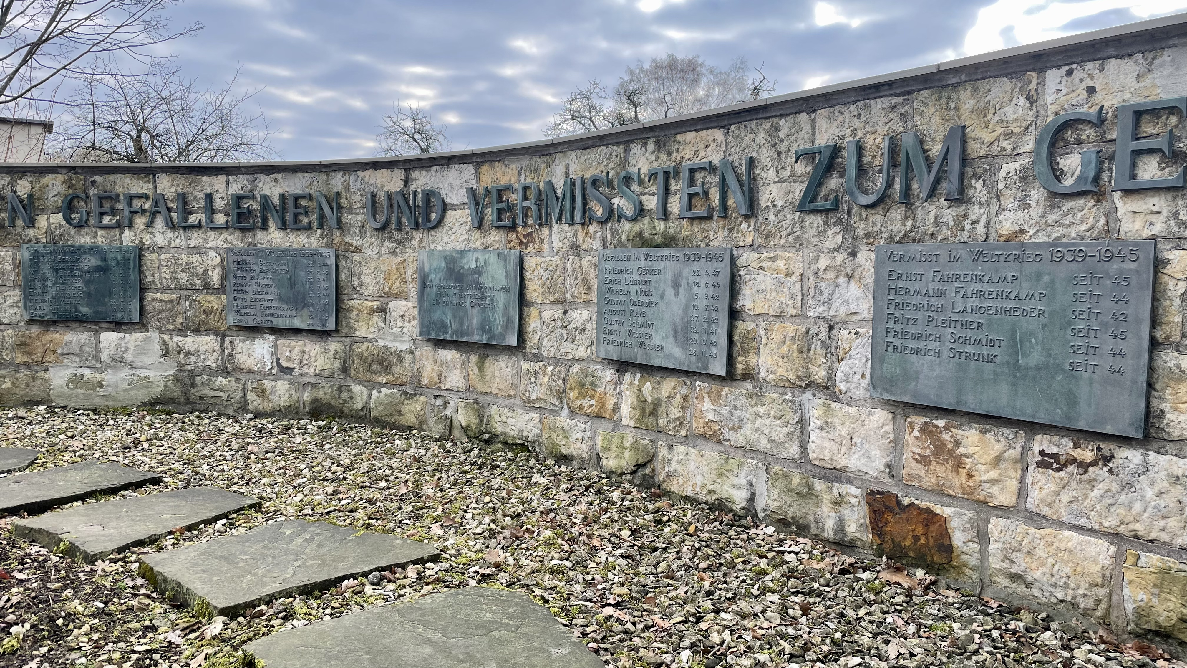 Memorial of the world-wars in Meesdorf.